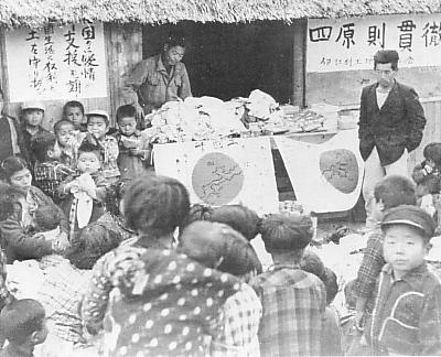 Land struggle in Okinawa